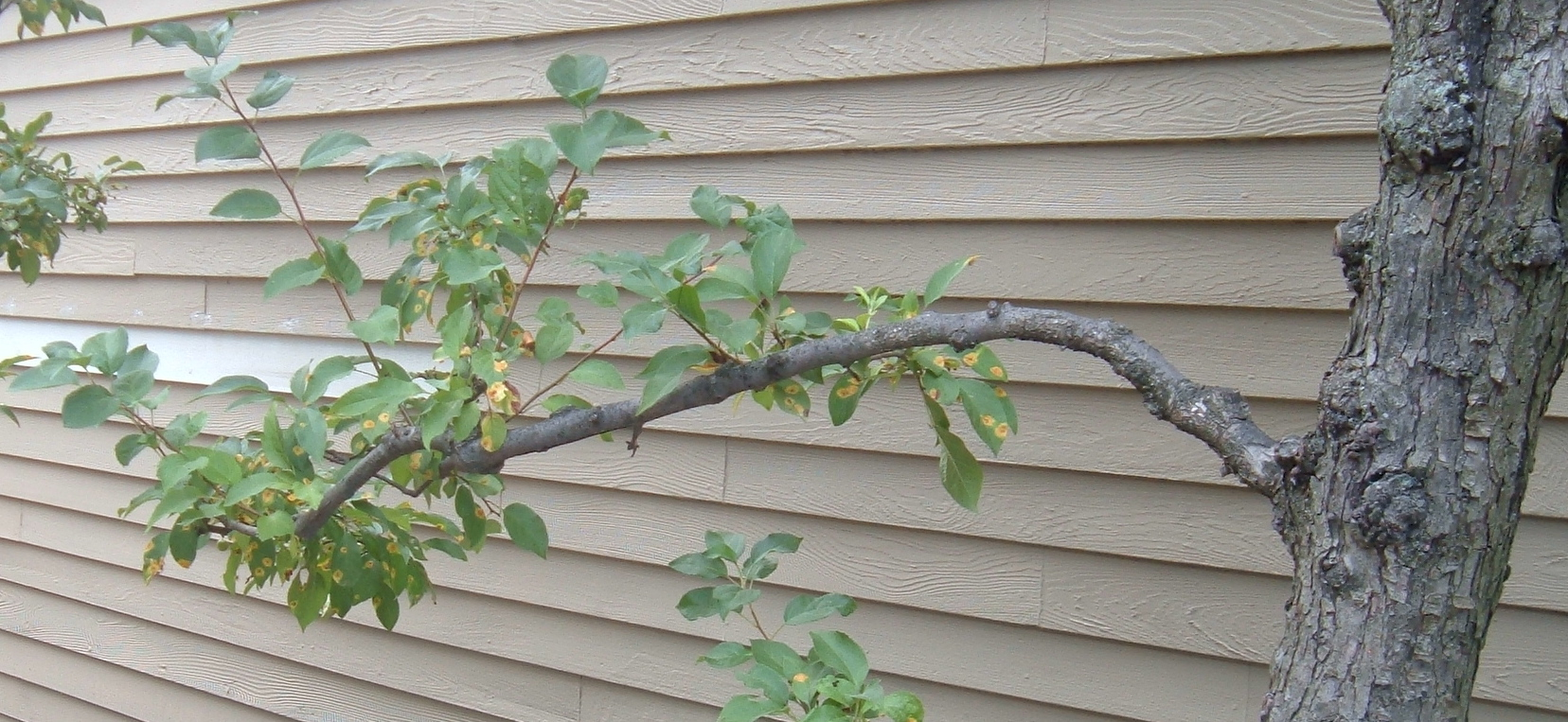 Tree branch. One of a series of common objects I photographed in the summer of 2005 to illustrate Basic English picture wordlist. --agr 21:08, 3 August 2005 (UTC)